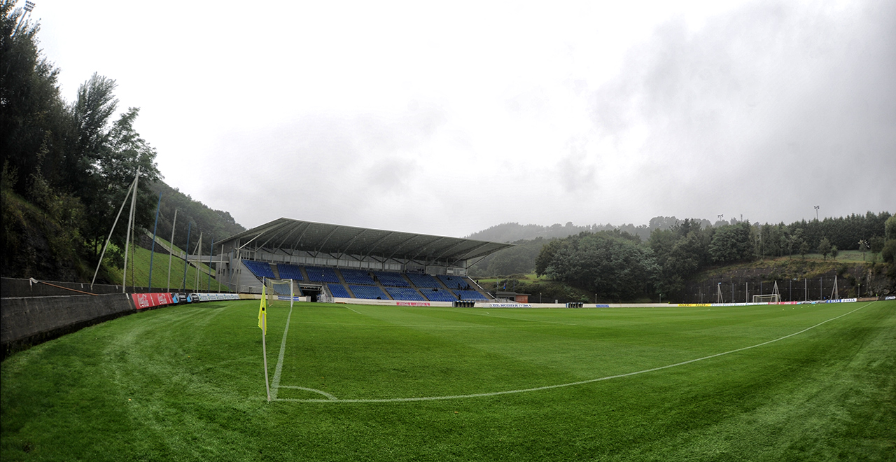 Zubieta Facilities in Donostia-San Sebastián, Basque Country, Spain